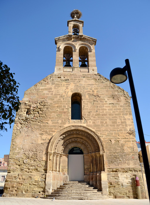 Old church of Santiago of Tormillo, Peralta de Alcofea, Huesca, Spain. Romanesque School of Lleida thirteenth century. In the late nineteenth century it was moved and placed in the church of St. Martin de Lleida, Catalonia. The July 1, 1893, the rector of Tormillo sent a letter to the bishop of Lleida Messeguer. He explained that he had informed the City of Tormillo, bishop's desire to reuse the gate of the old church, which had long been used as storage. The council unanimously replied that he was at the disposal of the Honourable Member, and that the village agreed. The bishop gave the Tormillo 375 pts, in return, for the recovery of the tower of the parish church.